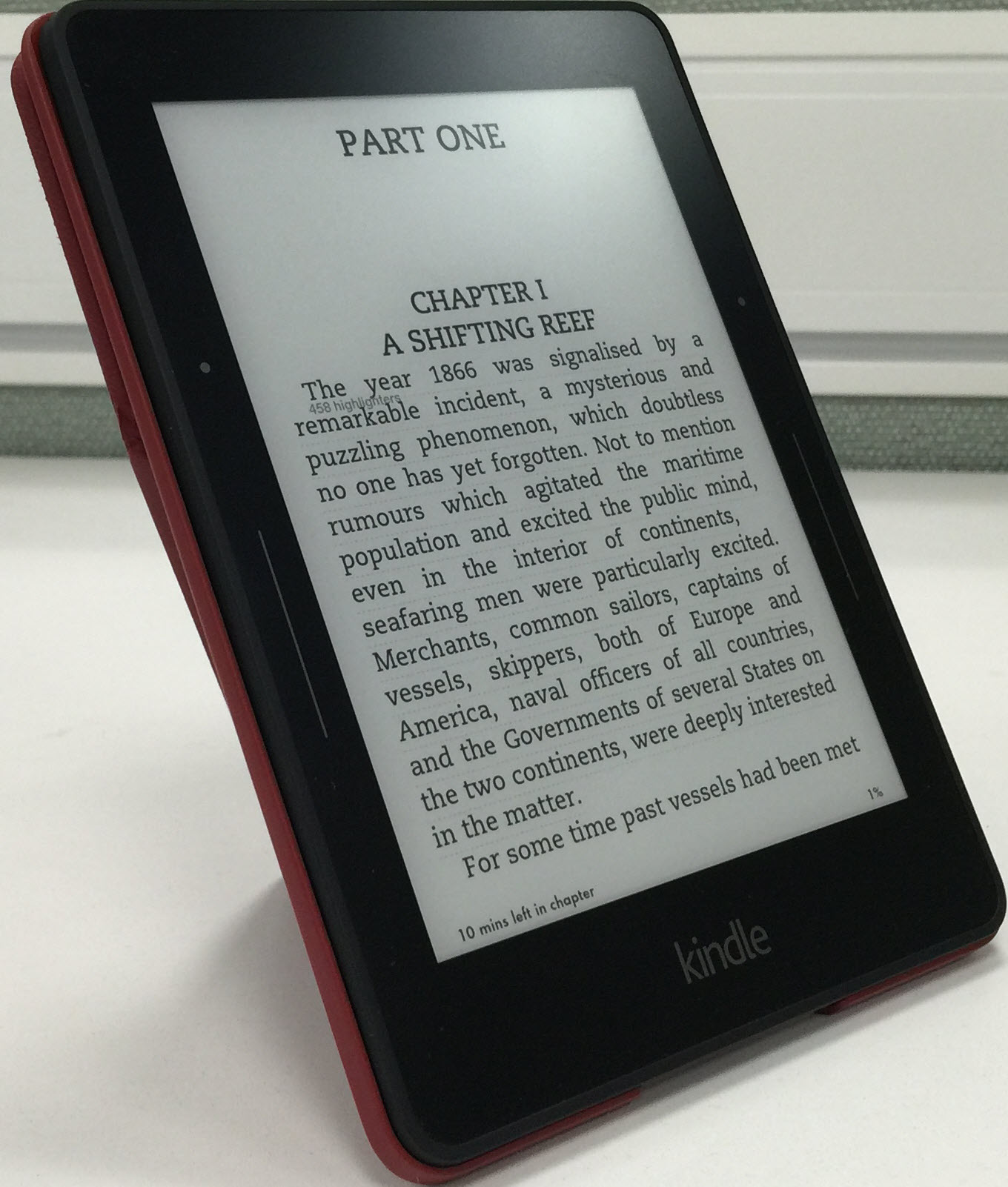 Kindle Voyage with origami cover.